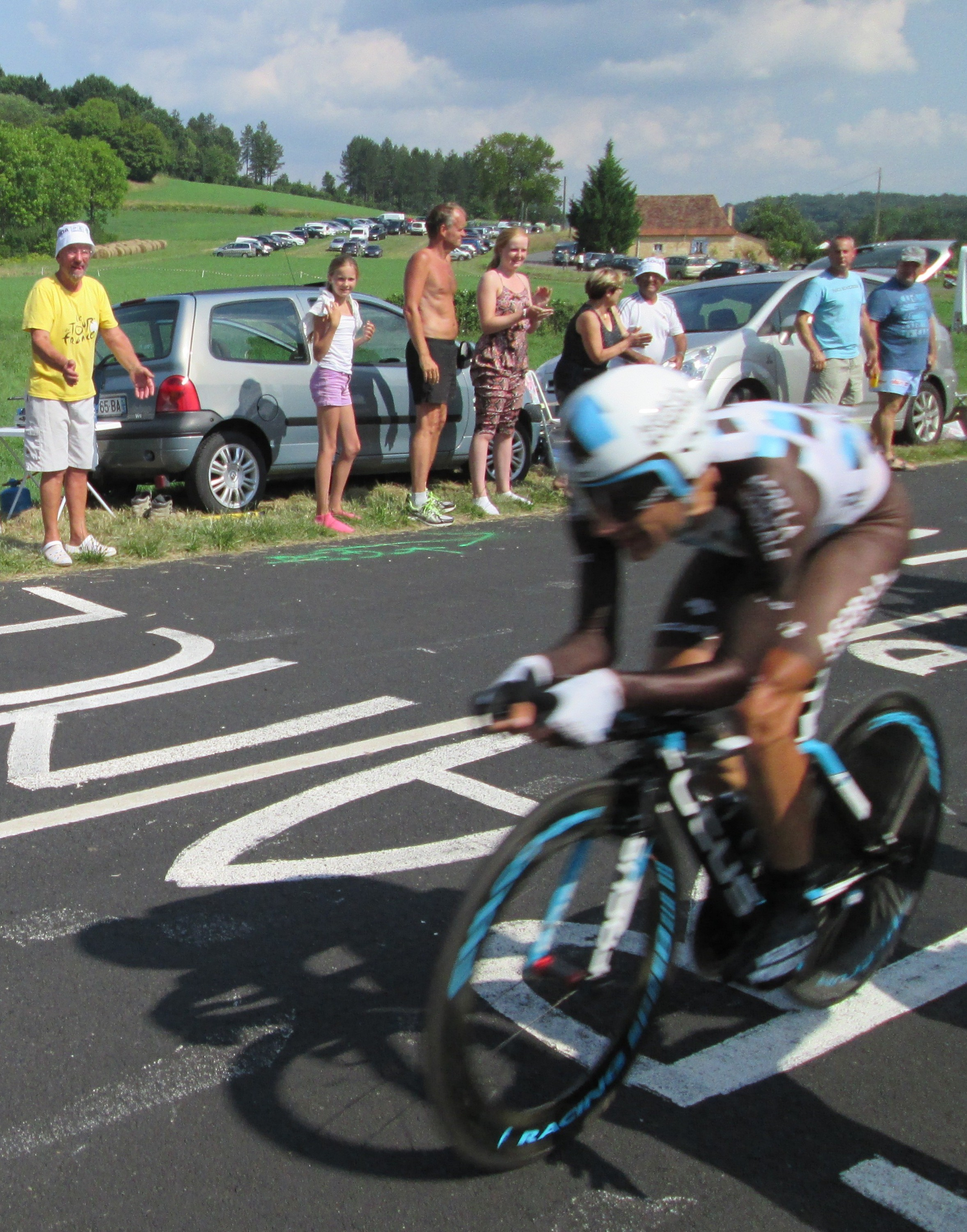 Jean-Christophe Péraud during the 2014 Tour de France, Stage 20. Photo taken 1.5 km after Beleymas, Dordogne.